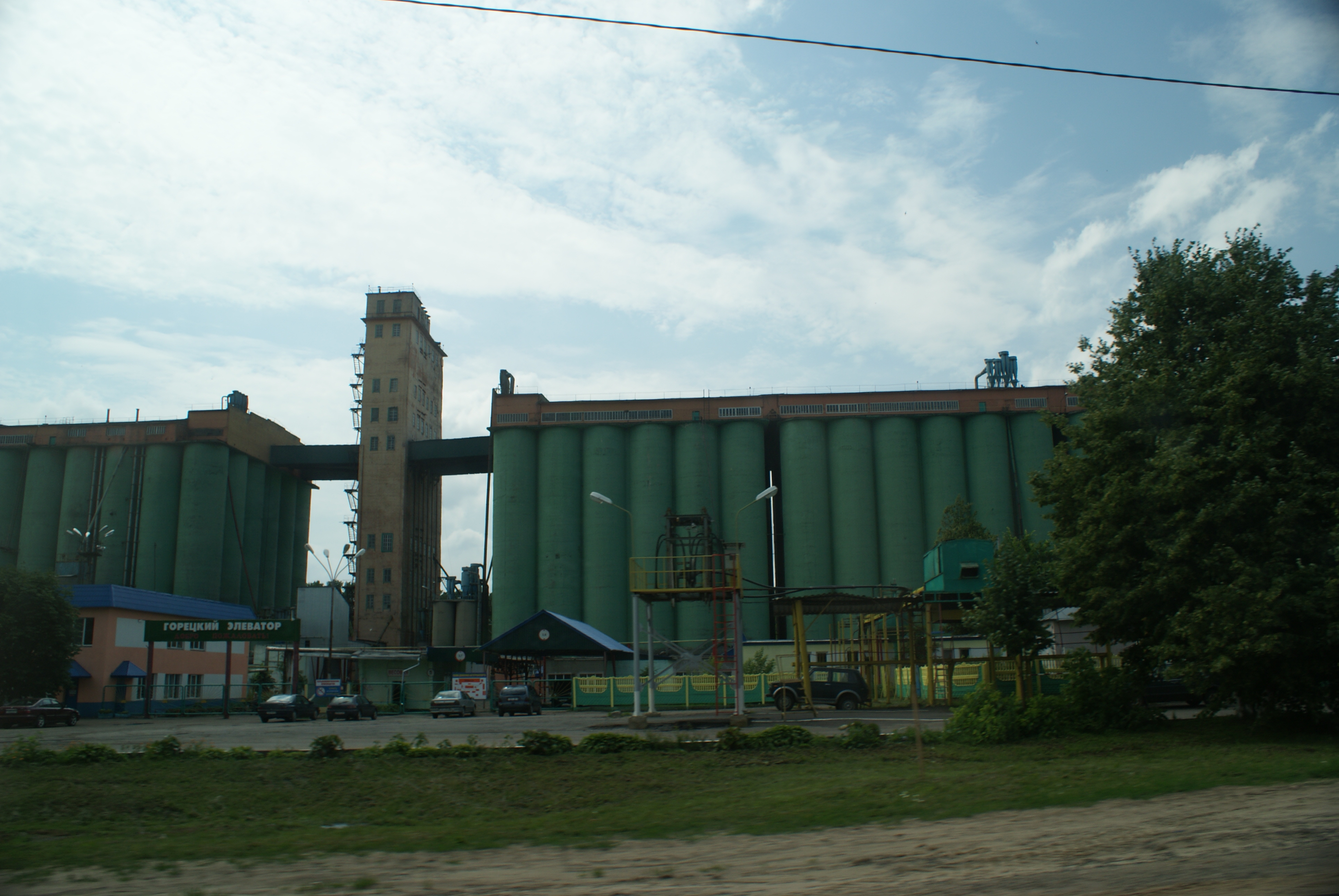 Grain elevator in the city of Horki, Republic of Belarus.